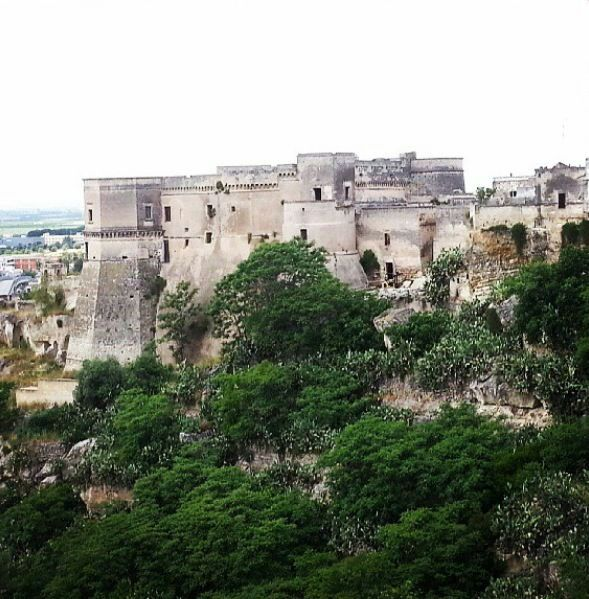 Castello di Massafra